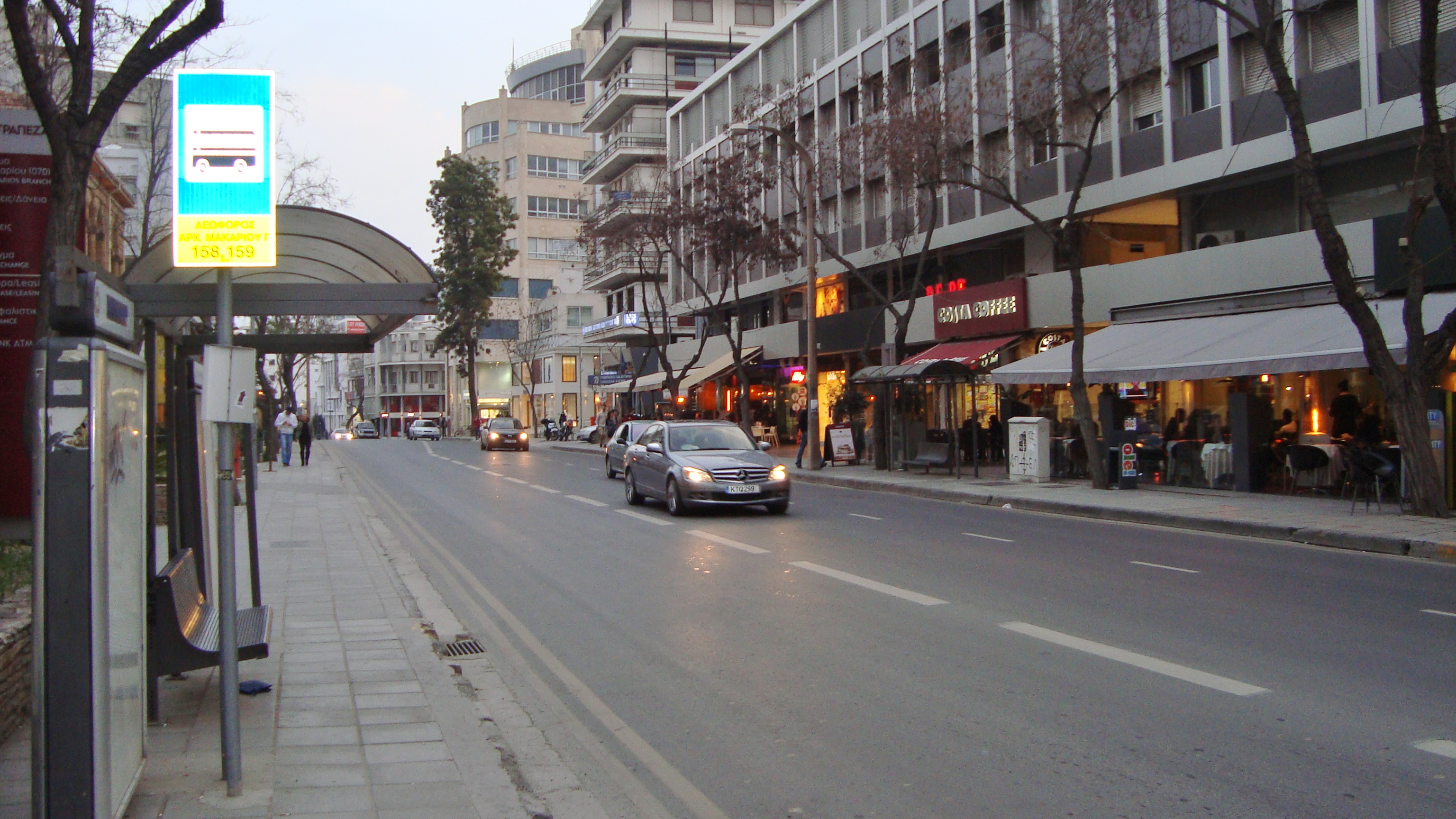 Shopping avenue Makariou, late in the evening.